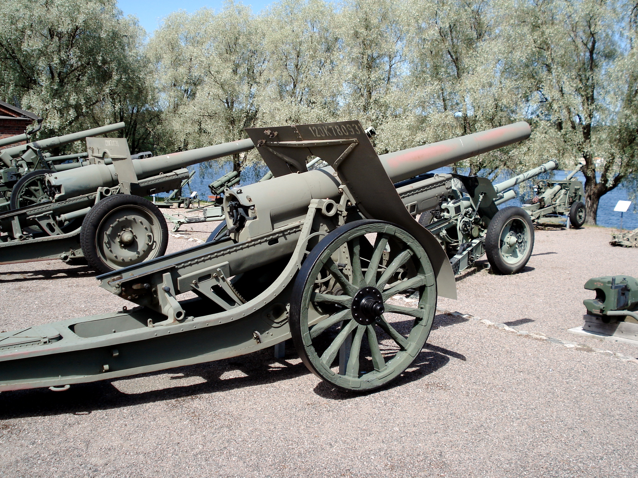 Polish wz. 78-09-31 Schneider 120 mm gun, manufactured in Starachowice in 1933, displayed in Hämeenlinna Artillery Museum. The gun has its original wooden-spoke wheels with steel rim. Photo taken on June 18, 2006. Source: Photo by me, User:Balcer.